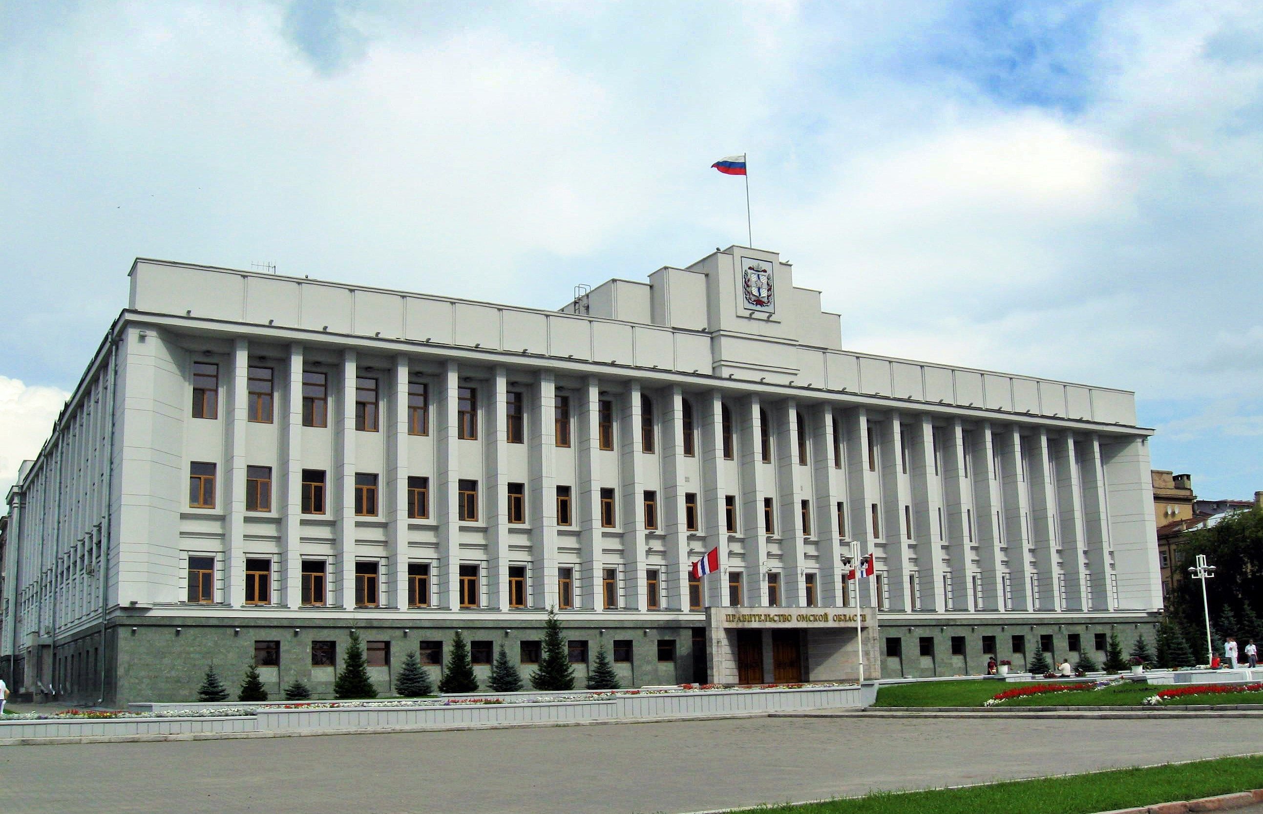 government seat in omsk